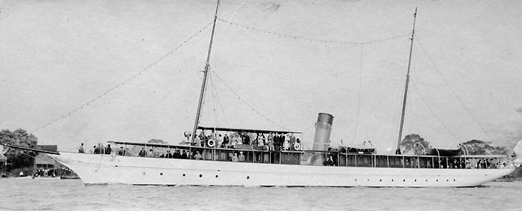 The yacht Mary Alice, prior to her service as a United States Navy patrol vessel.